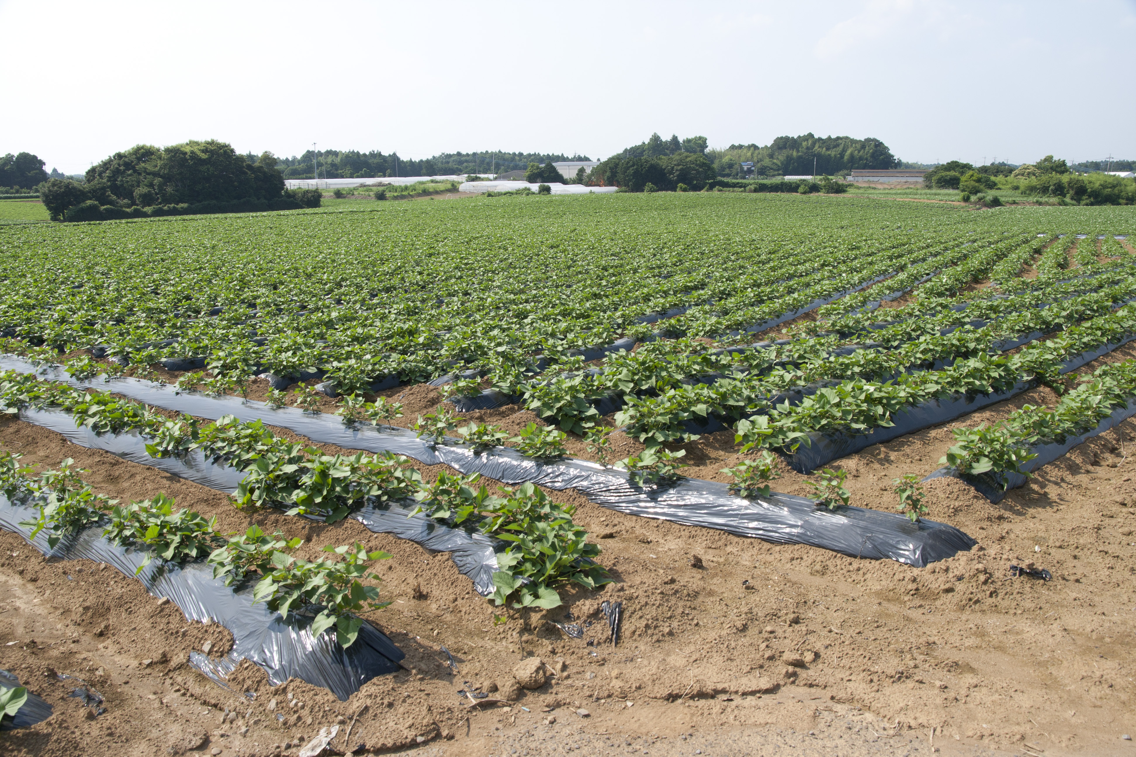 Sweet potato field in Namegata City, Ibaraki Pref., Japan